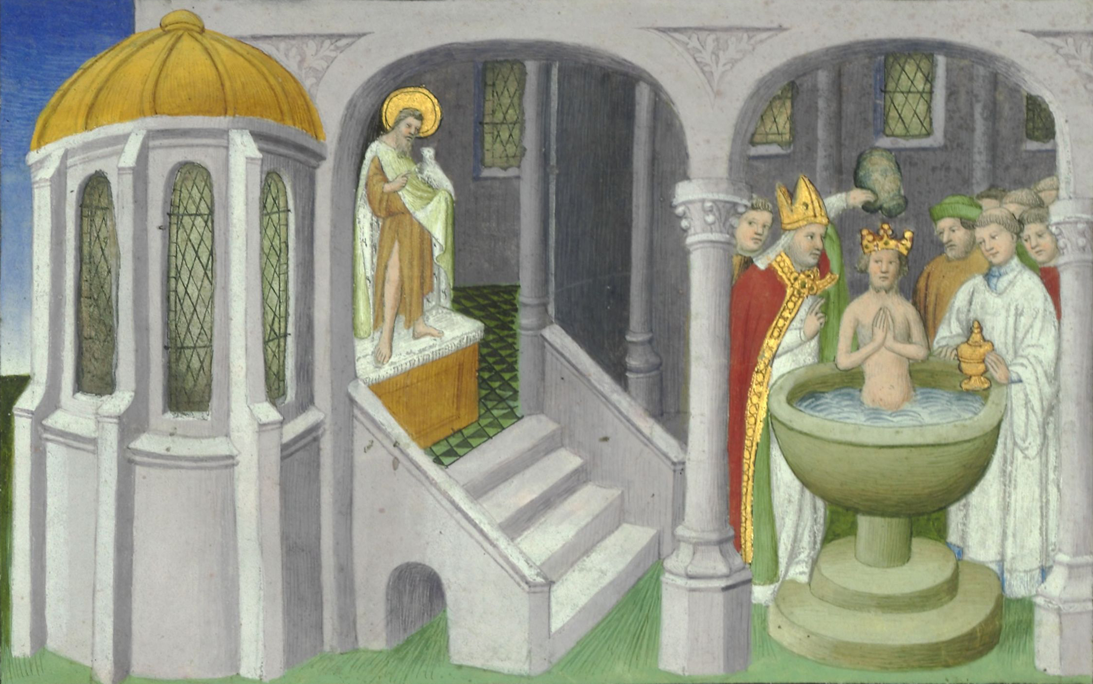 Baptism of Chagatai. The Travels of Marco Polo